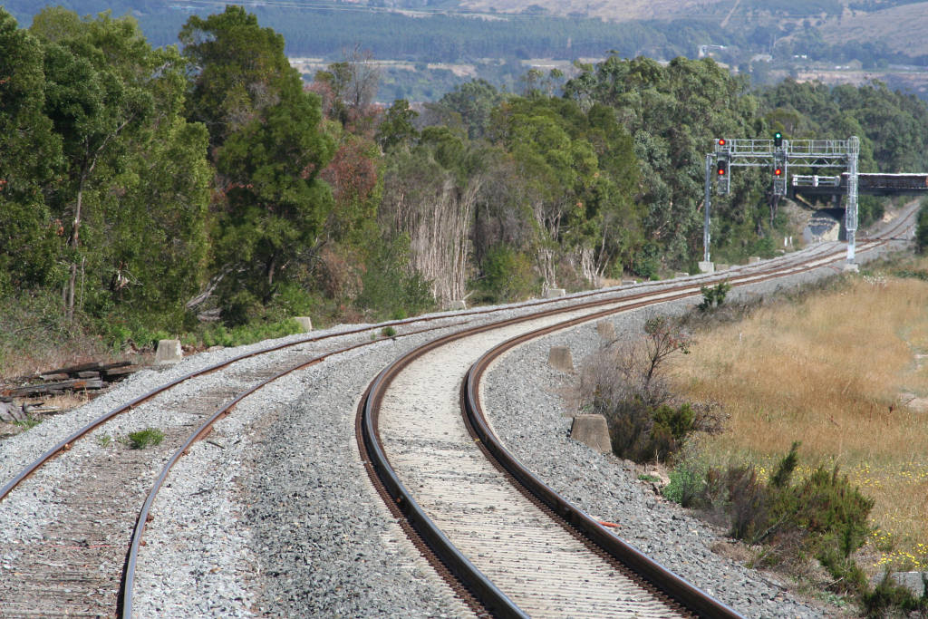 Upgraded track on the Orbost railway line, Victoria at Morwell Loop (not Hernes Oak loop, which is to the east). Note only one track has concrete sleepers.